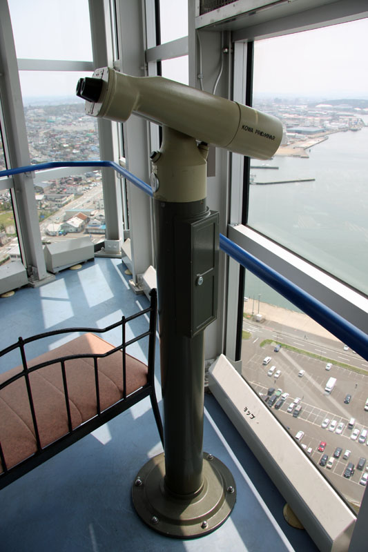 Kowa "Prominar" Siteseeing Telescope at Akita Port Tower SELION, Akita, Akita, Japan